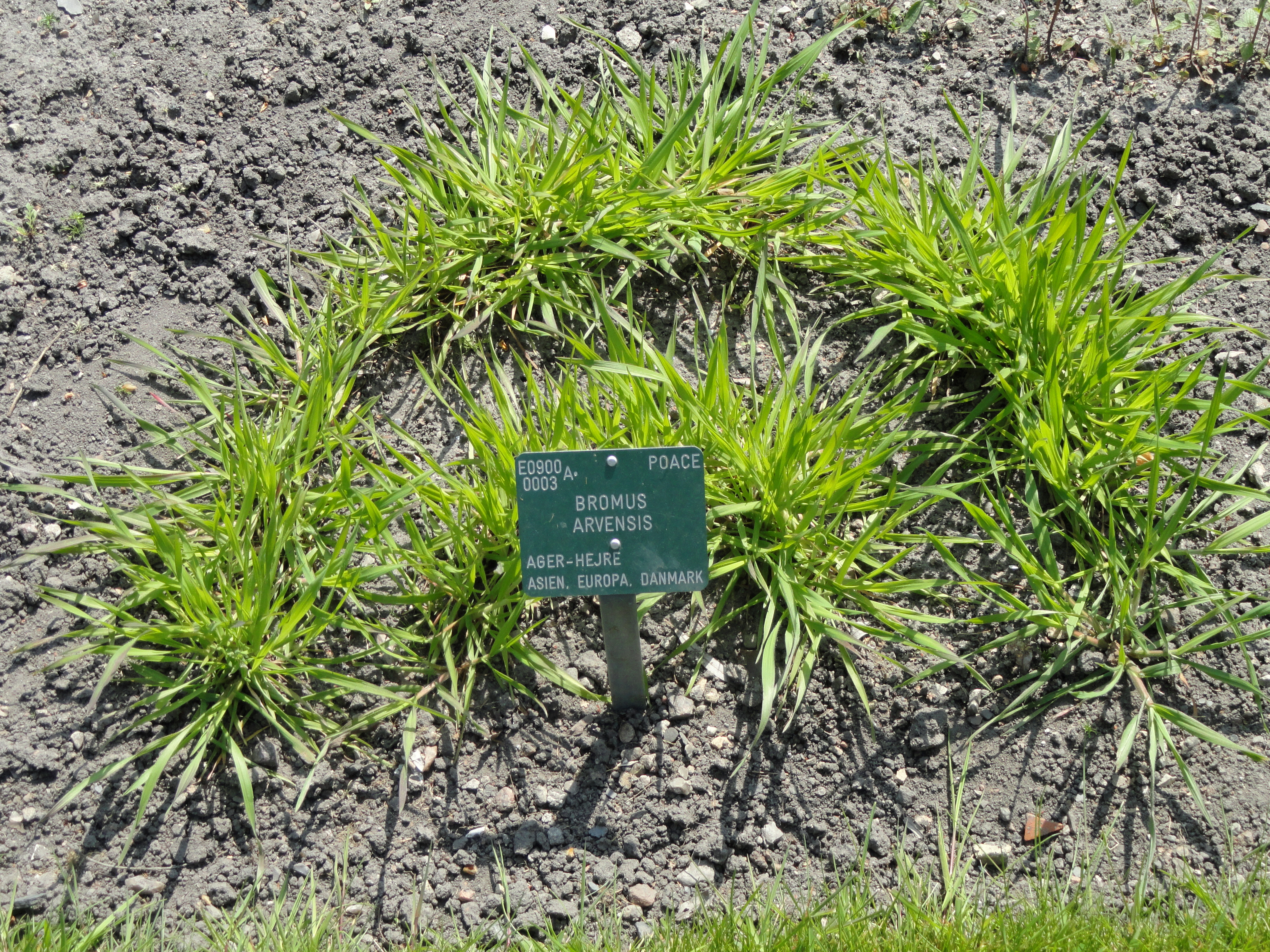 Botanical specimen in the University of Copenhagen Botanical Garden, Copenhagen, Denmark.